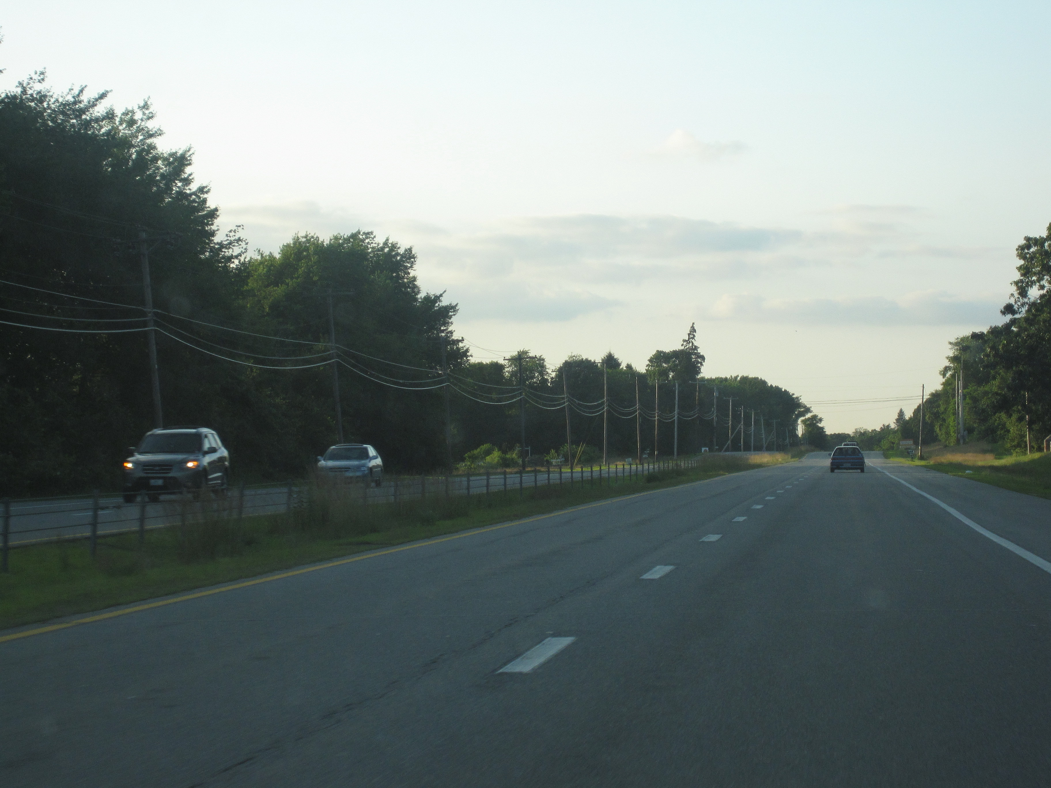 Southbound U.S. Route 1 during its concurrency with Rhode Island Route 138 east in North Kingstown, Rhode Island. The route remains a divided highway until the Route 4 split in Wickford.